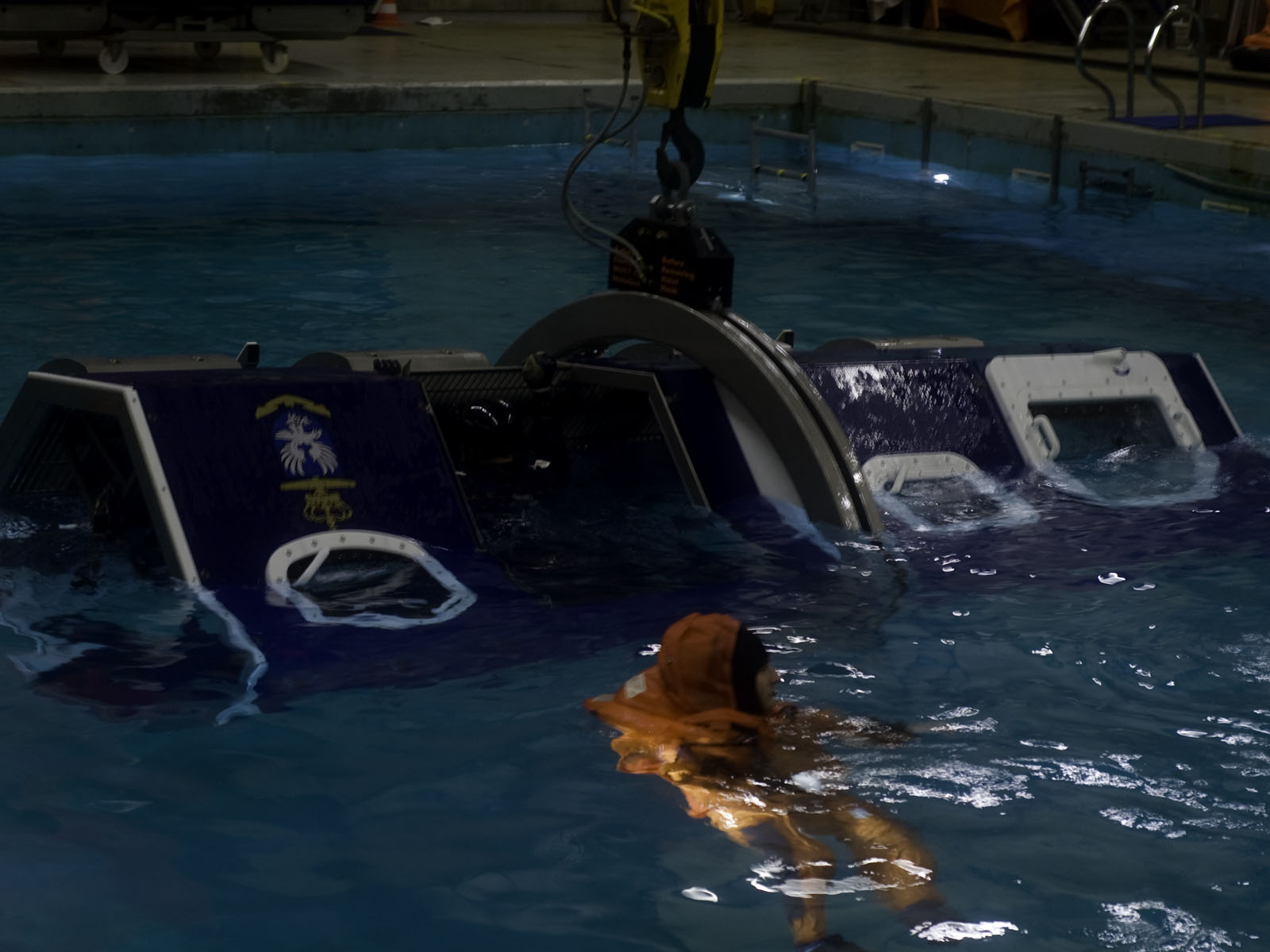 Helicopter Underwater Escape Training (HUET) simulator. The simulator is completely lowered into water and then rotated 180 degress, so people are positioned with their heads down. The simulators can be either generic or to specific helicopter types. This one is for the Westland Lynx helicopter and is operated by the Danish Naval Air Squadron.